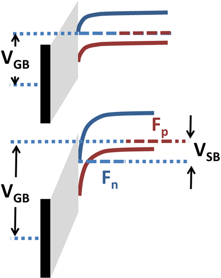 Cross-section of nMOSFET showing effect of source-body voltage Vsb in splitting the Fermi levels for electrons and holes